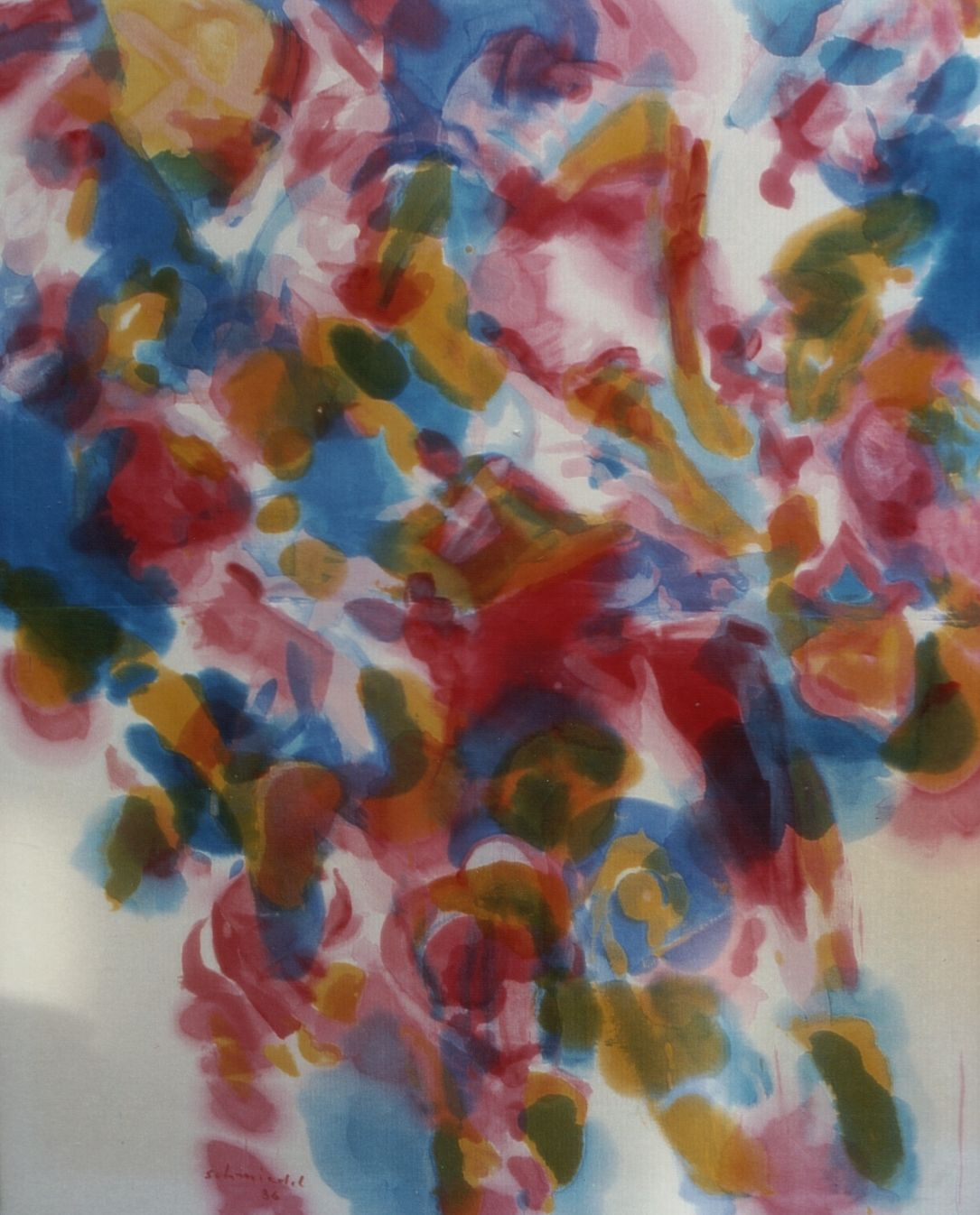 Peter Schmiedel -- No. 235 -- no title -- no date -- 130 x 107 cm -- canvas